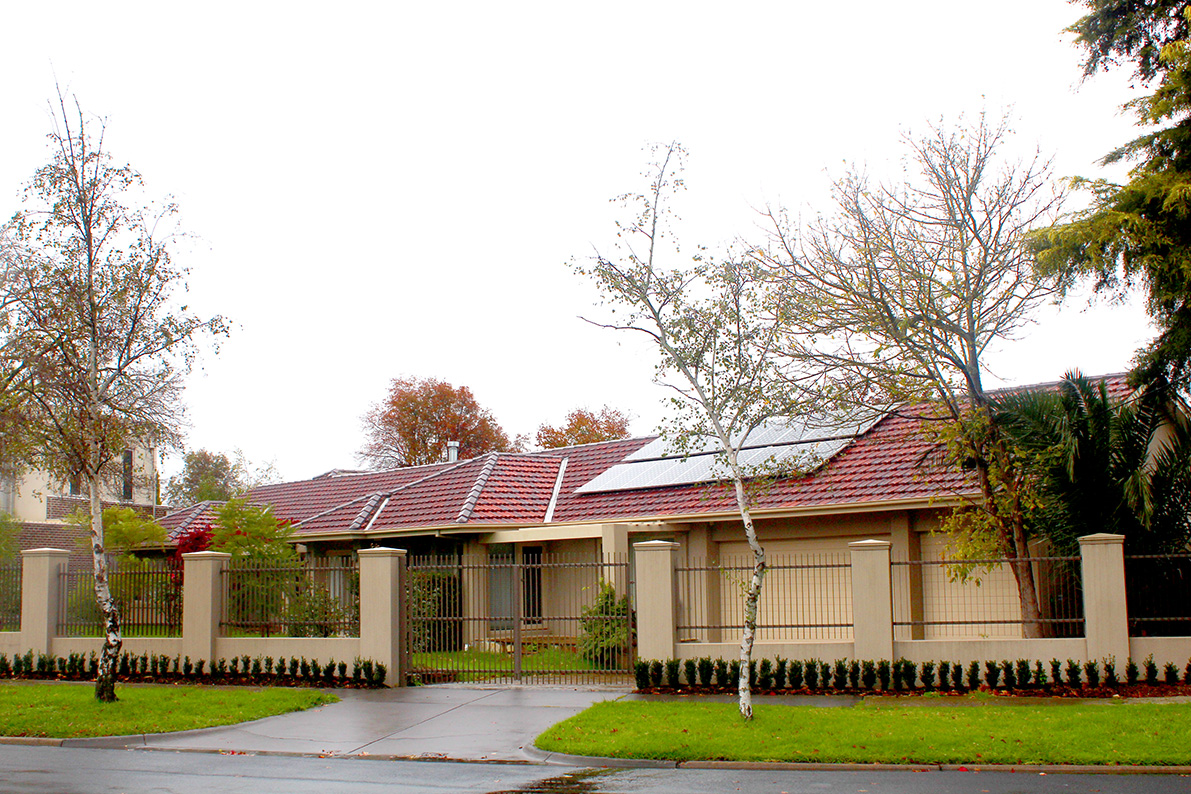 Fraser Residence